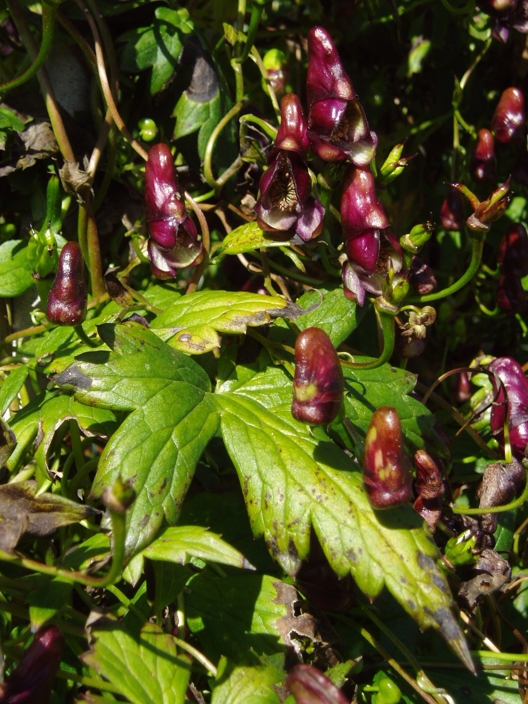 Species of wolf's bane (Aconitum hemsleyanum), Bergianska trädgården, Stockholm